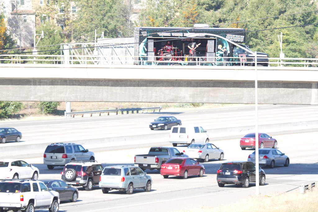 The Athiarchists raging it on an overpass above the 405 freeway in Irvine, CA